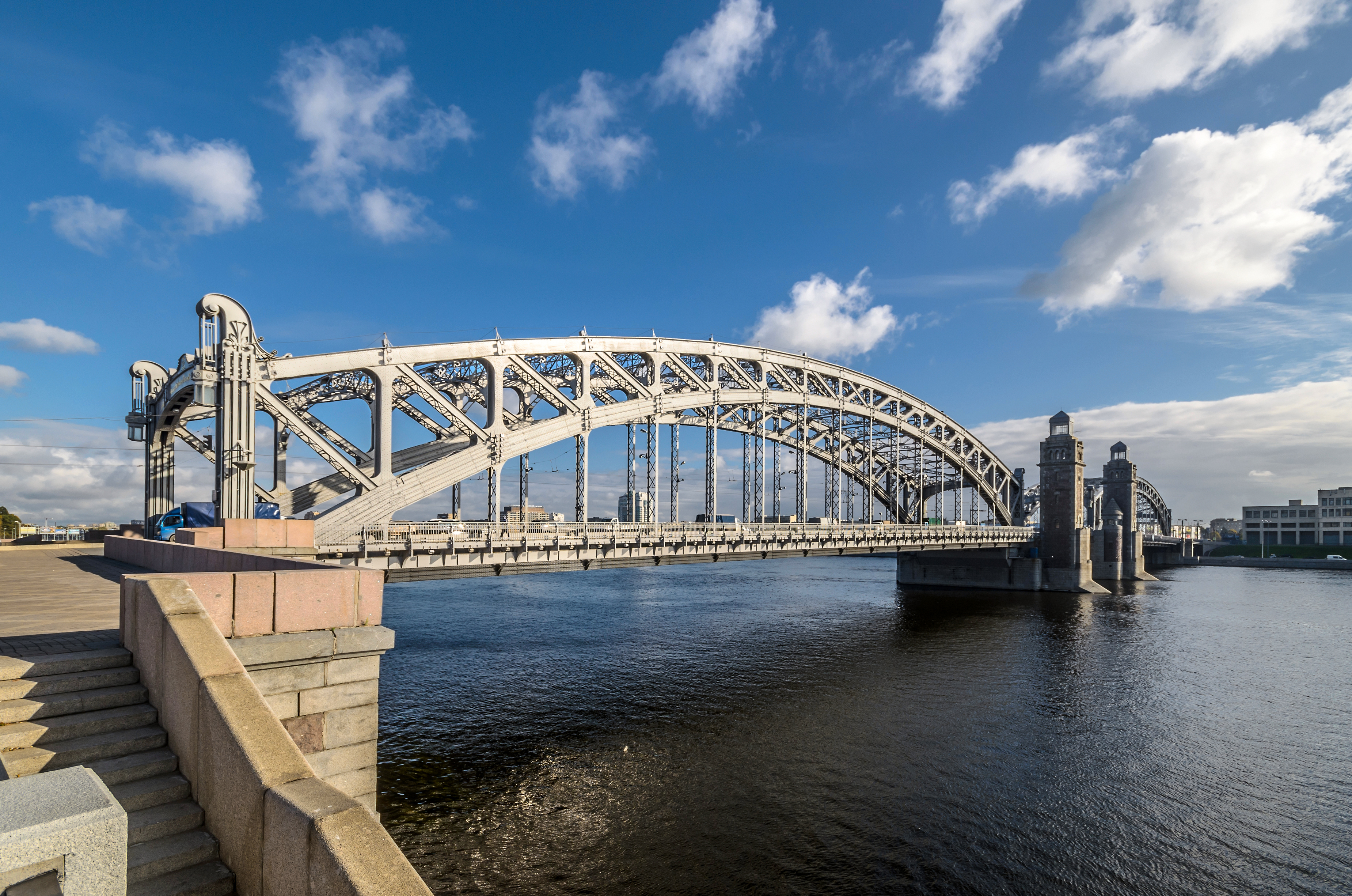 Bolsheokhtinsky Bridge in Saint Petersburg